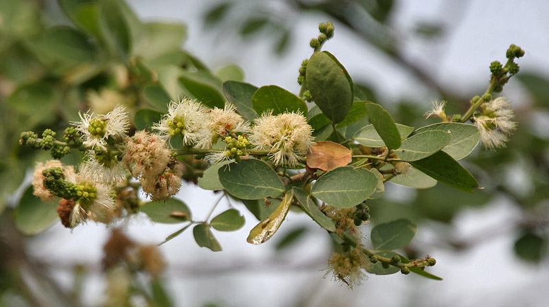 Jungle Jalebi Pithecellobium dulce in Kolkata, West Bengal, India.